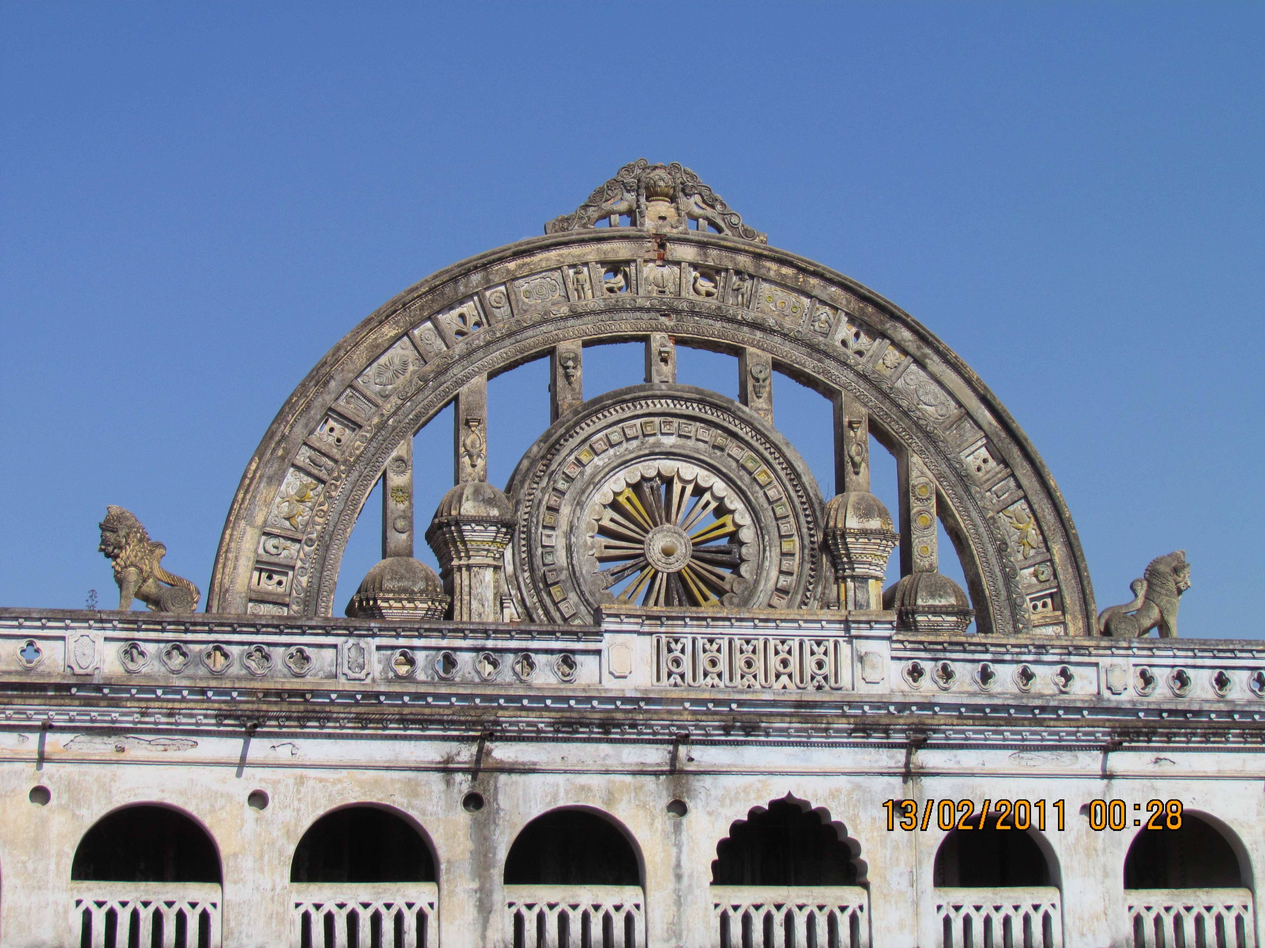 This is the main entrance of the Talcher Palace at Talcher, Orissa.